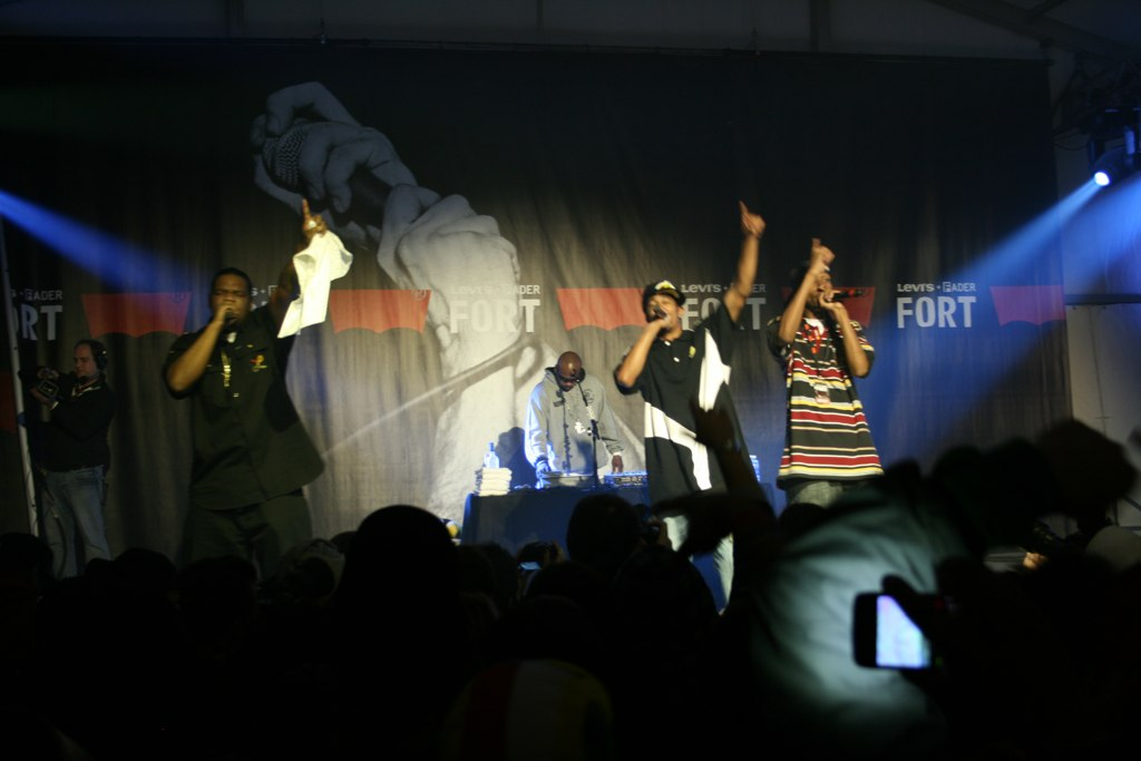 Bone Thugs N Harmony at Levis Fort- SXSW '10